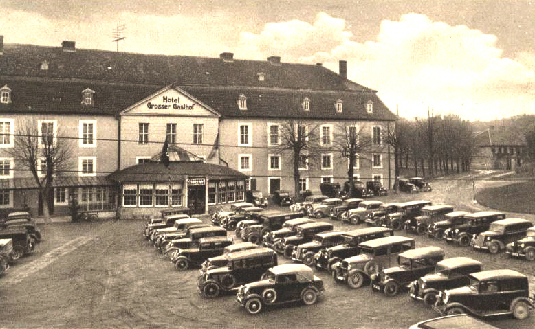 Hotel Grosser Gasthof between 1933 and 1945